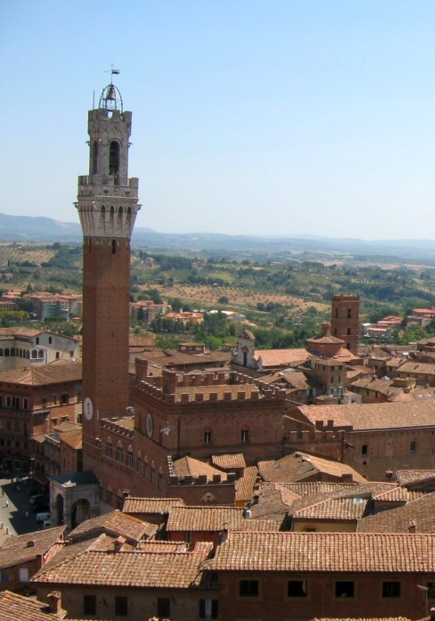 Torre del Mangia, Siena. Tuscany